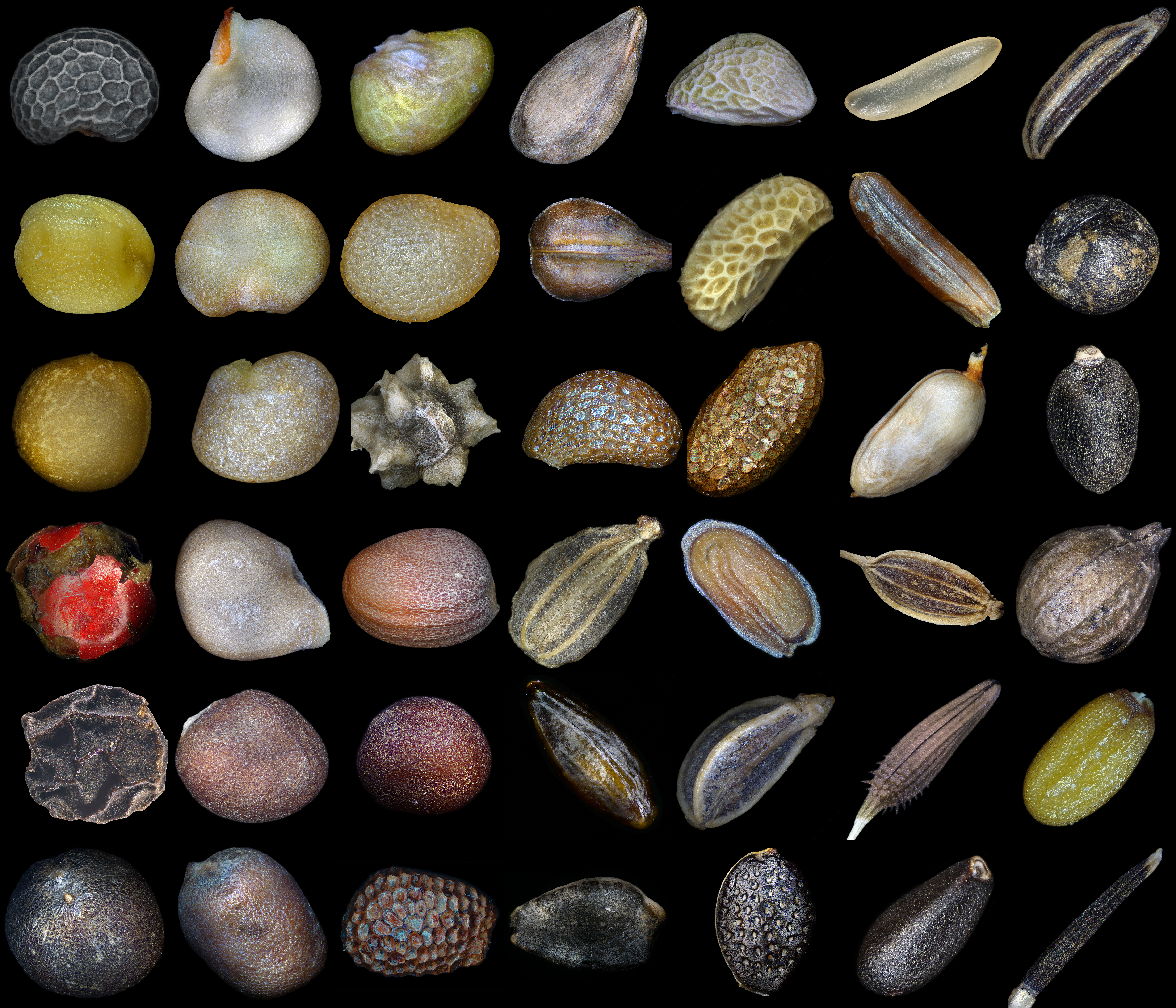 Microimages of seeds of various plants. The first row: Poppy, Red pepper, Strawberry, Apple tree, Blackberry, Rice, Carum. Second row: Mustard, Eggplant, Physalis, grapes, raspberries, red rice, Patchouli. The third row: Figs, Lycium barbarum, Beets, Blueberries, Golden Kiwifruit, Rosehip, Basil. The fourth row: Pink pepper, Tomato, Radish, Carrot, Matthiola, Dill, Coriander Fifth row: Black pepper, White cabbage, Napa cabbage, Seabuckthorn, Parsley, Dandelion, Capsella bursa-pastoris. The sixth row: Cauliflower, Radish, Kiwifruit, Grenadilla, Passion fruit, Melissa, Tagetes erecta.